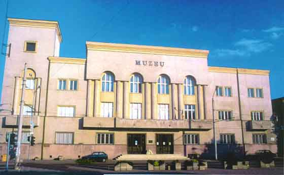 Satu Mare County Museum, the former Satu Mare County Prefecture. The historical building was built in 1936.